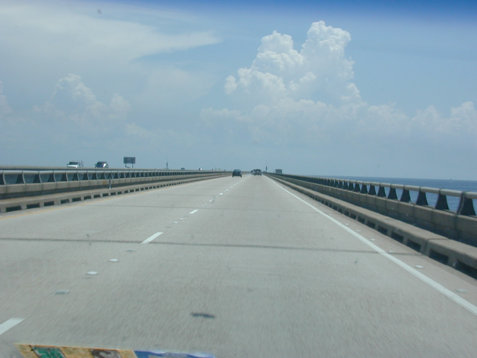 Crossing Lake Pontchartrain Causeway, direction New Orleans. Picture taken by Jan Kronsell, July 4th 2004.